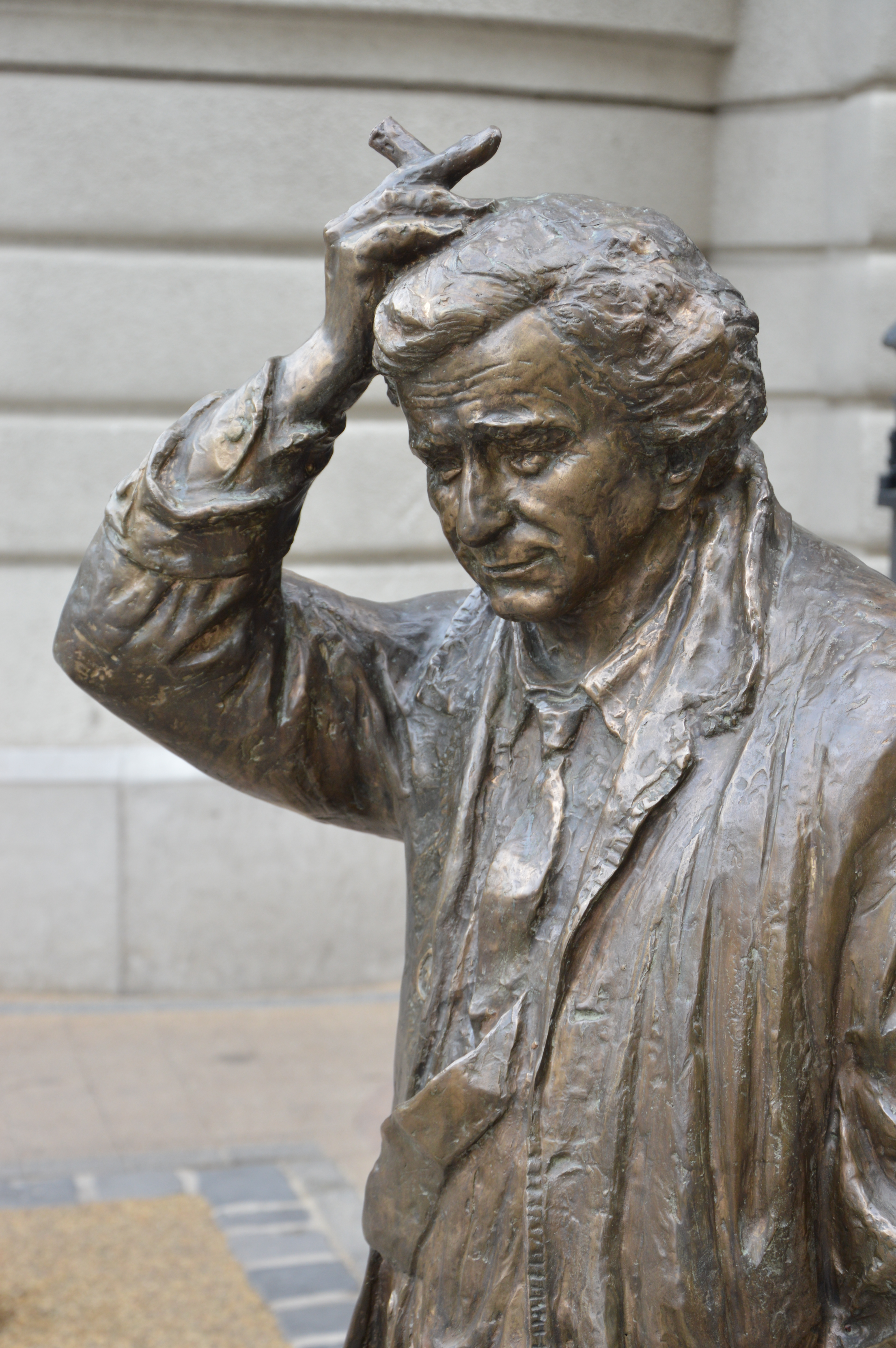 Detail of Géza Dezső Fekete's statue of Columbo on Falk Miksa utca in Budapest (Hungary).